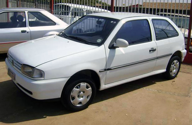 Volkswagen Gol "Bola" 1.6 CL Mi of the second generation